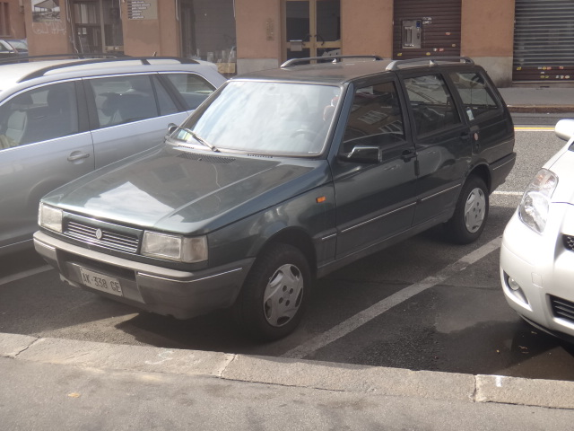 Another great find for me and again, was in pretty good condition considering the age of these things. Not many around, only saw another 2 while we were there.